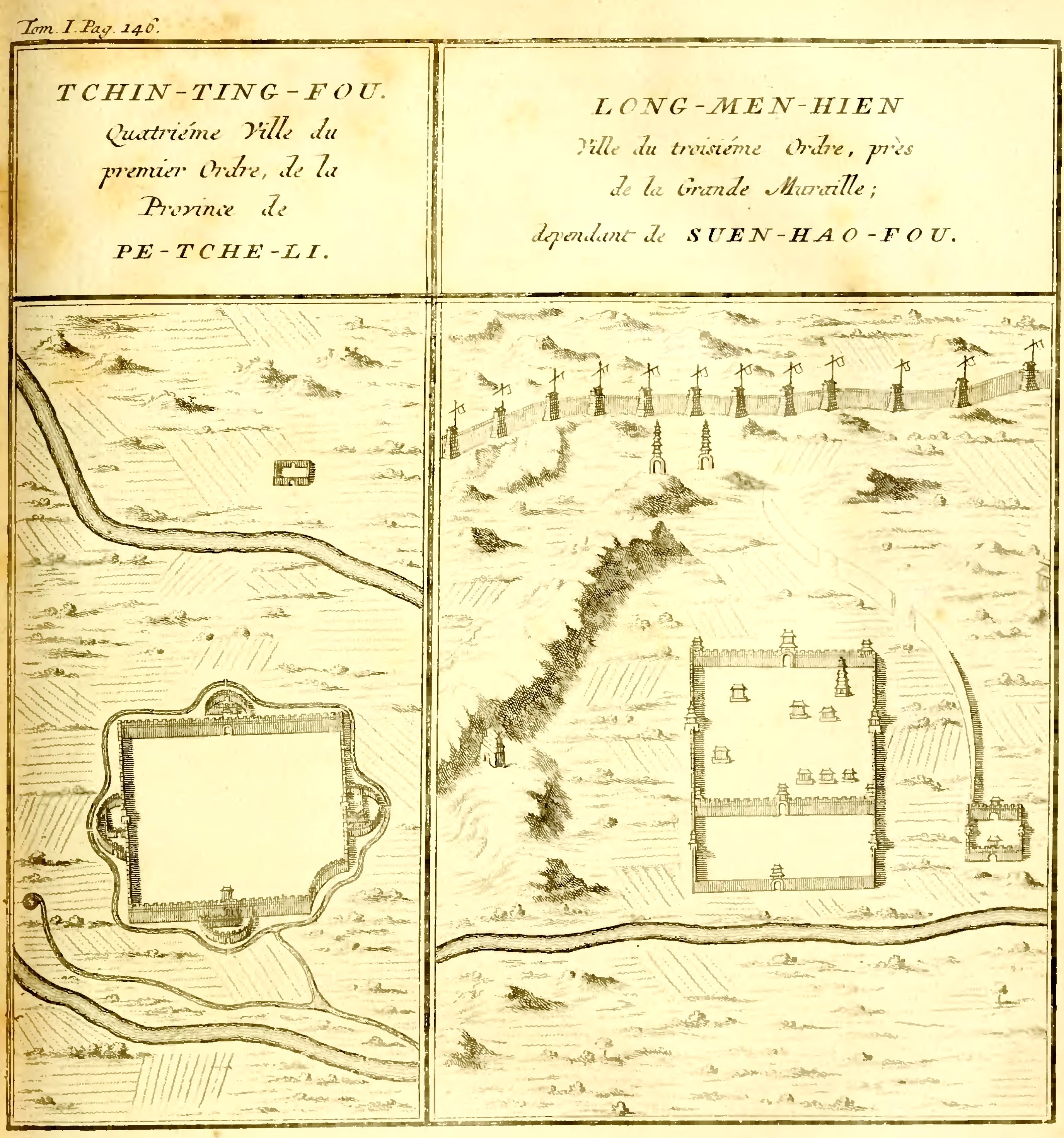 Maps of Zhengdingfu (正定府, now a county of Shijiazhuang Prefecture) and Longmenxian (龍門縣, now a town in Chicheng County) in Beizhili (北直隶), now Hebei and environs. Mention is also made of Xuanhuafu (宣化府), now a district of Zhangjiakou. An engraving from the Dutch edition of Du Halde's Description of China, Vol. I, p. 140.